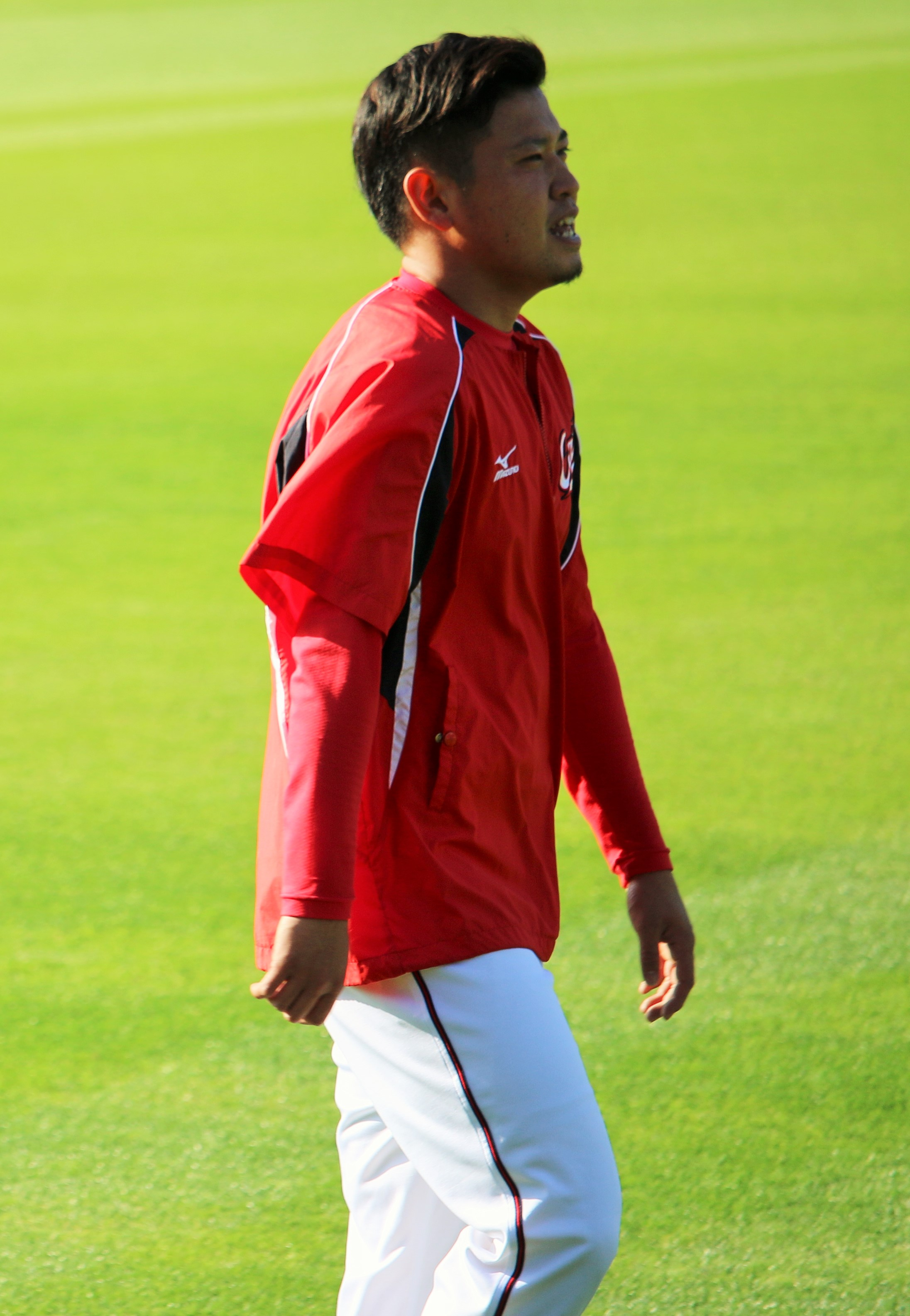 Jumpei Ono, pitcher of the Hiroshima Toyo Carp, at Kobe Sports Park Baseball Stadium.